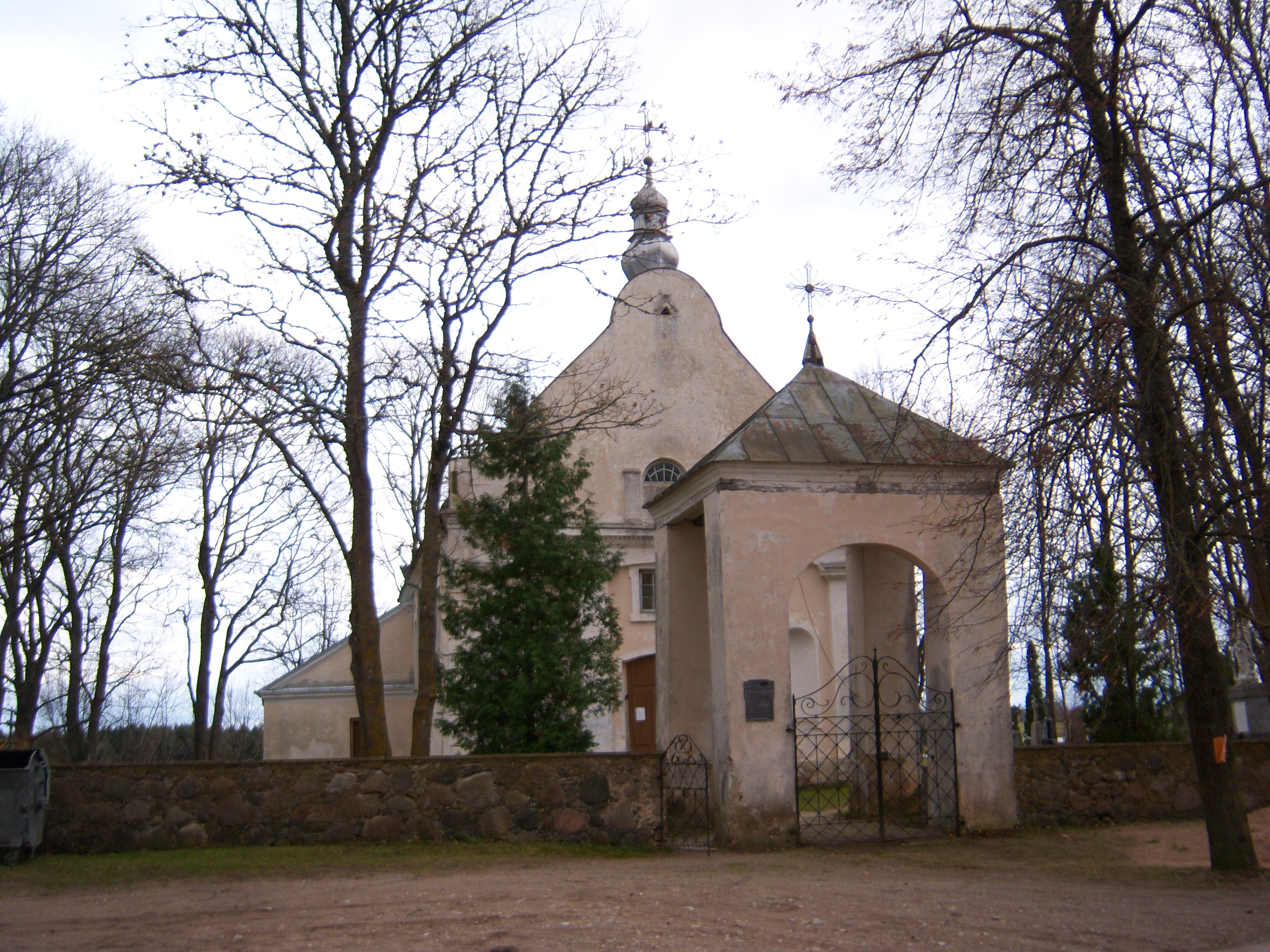 Roman Catholic Church in Palėvenėlė, Kupiškis District, Lithuania